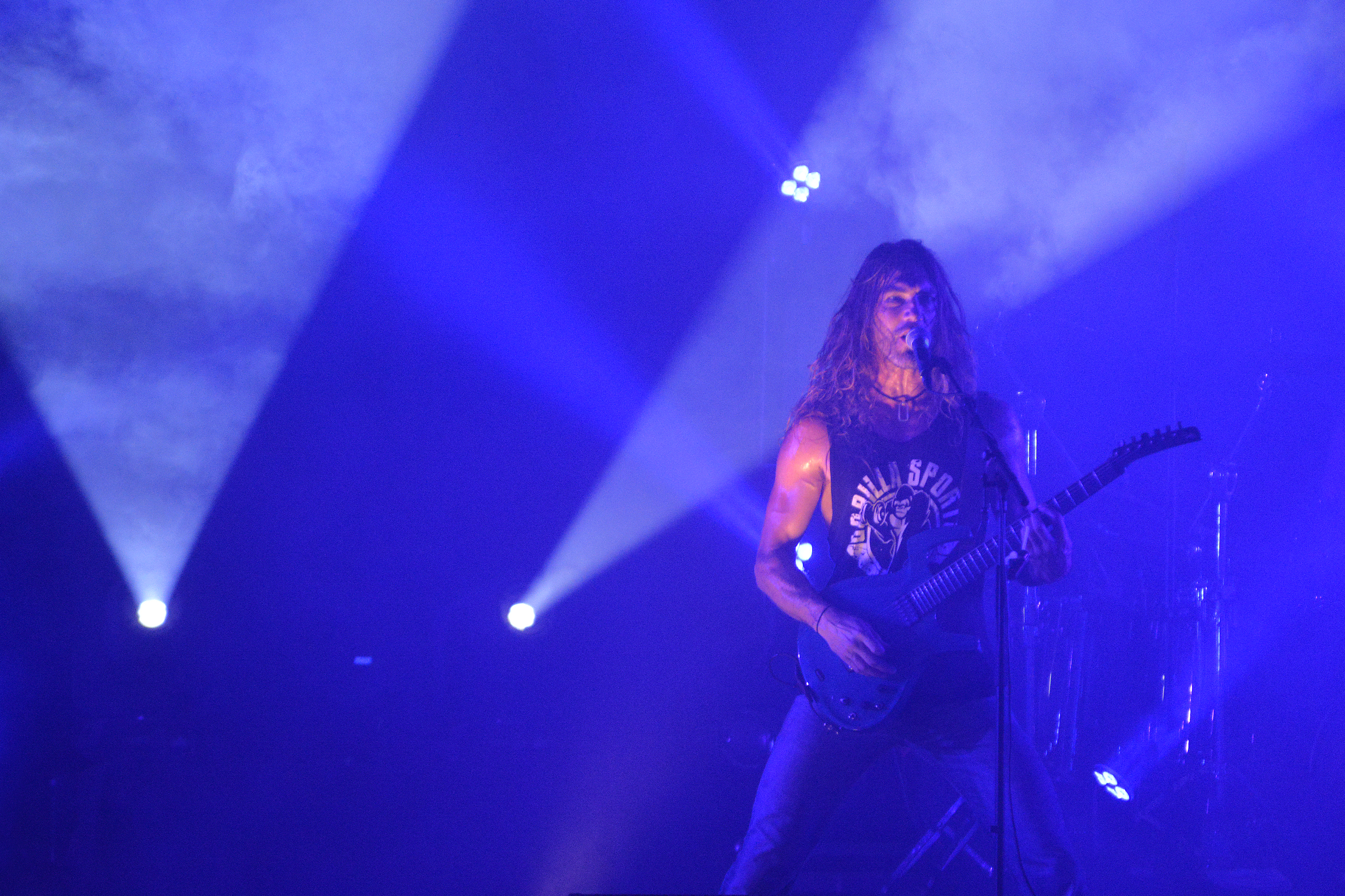 Daniel Gildenlöw, Pain of Salvation singer at 2017 Hellfest, France.